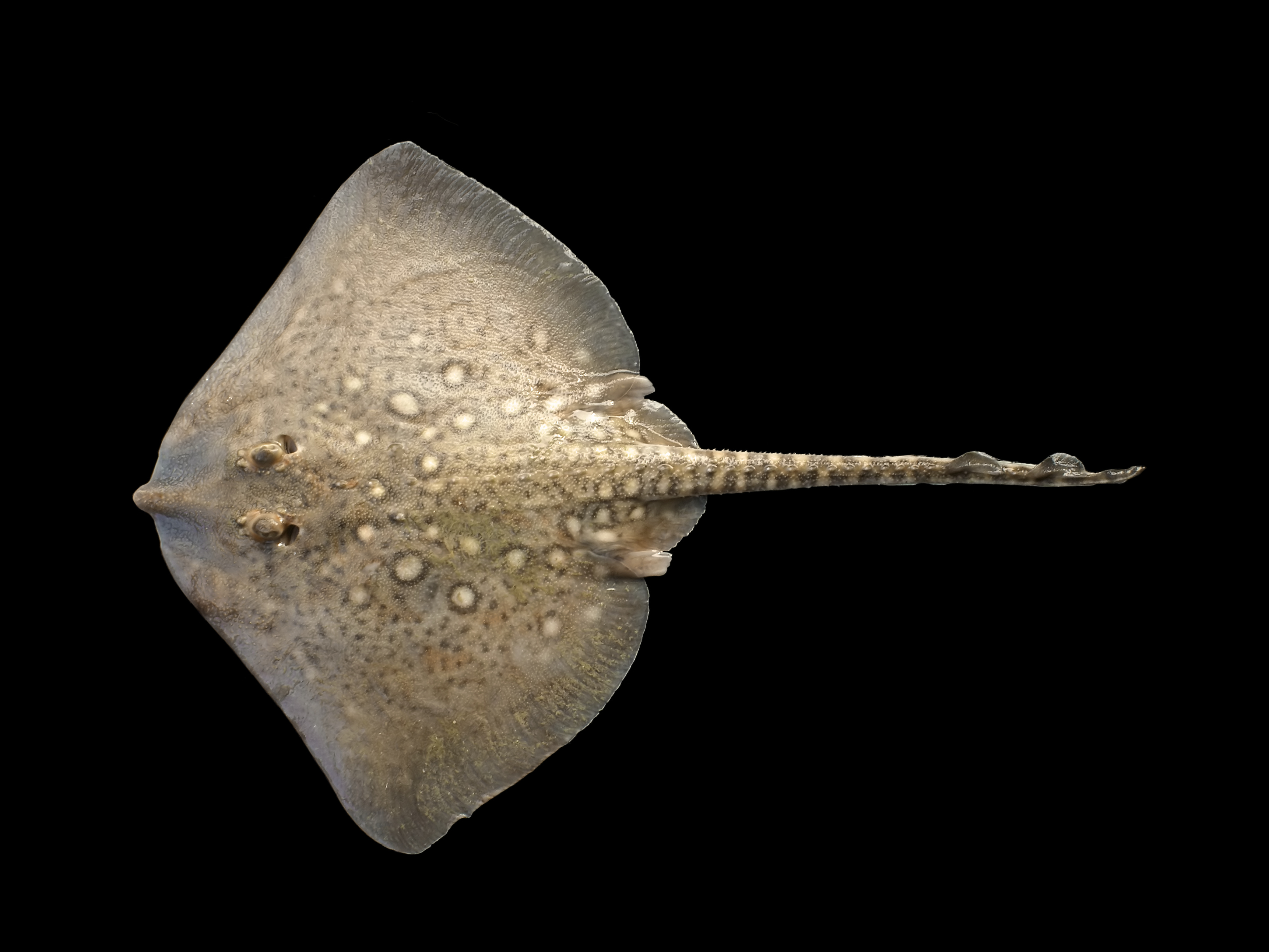 Juvenile thornback ray off De Panne, Belgium. The co-ordinates are the centre of a 2.0 nm WSW-ENE fish track.